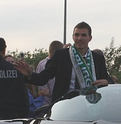 Edin Džeko, bosnian football player